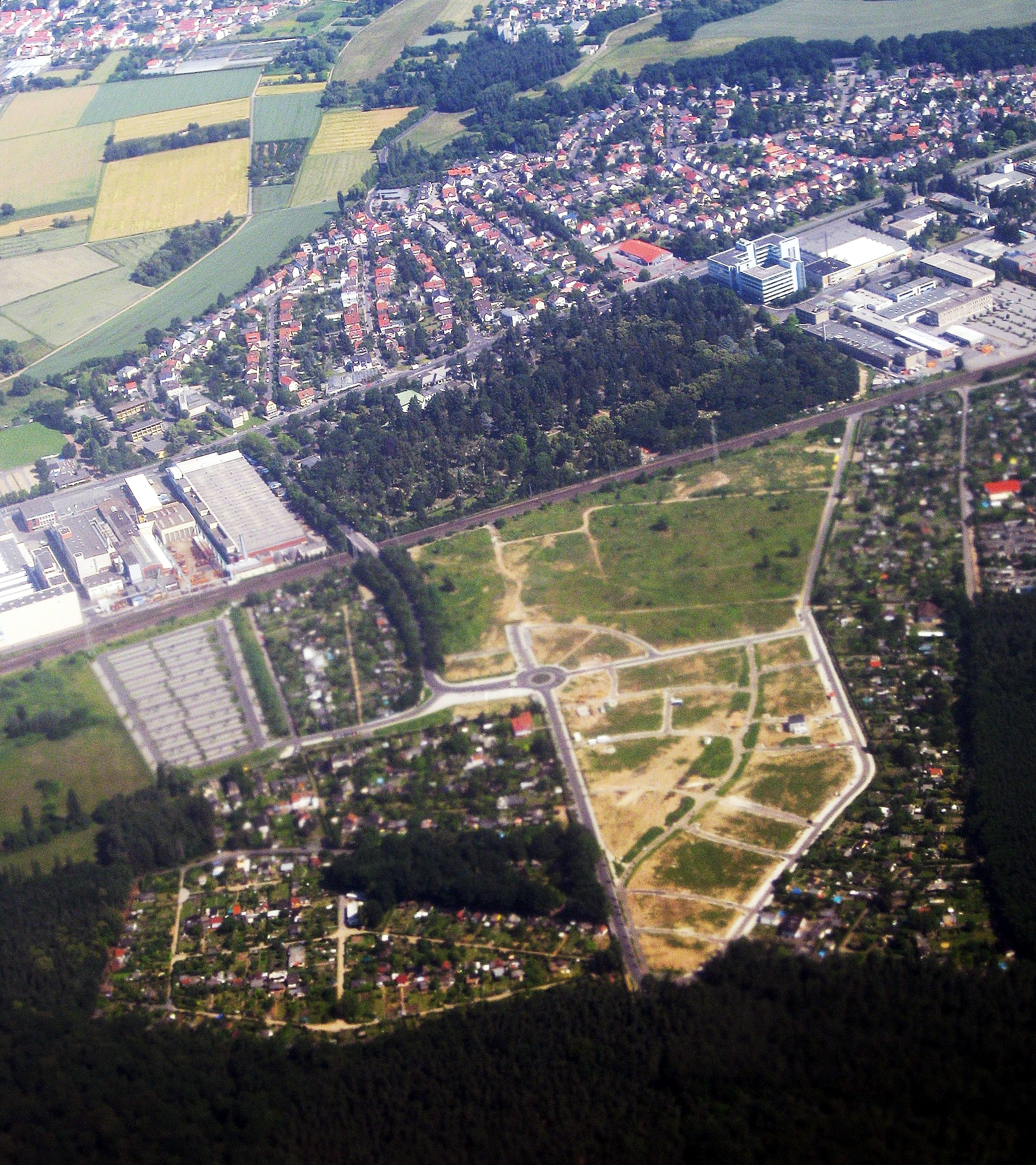 An den Eichen, Offenbach